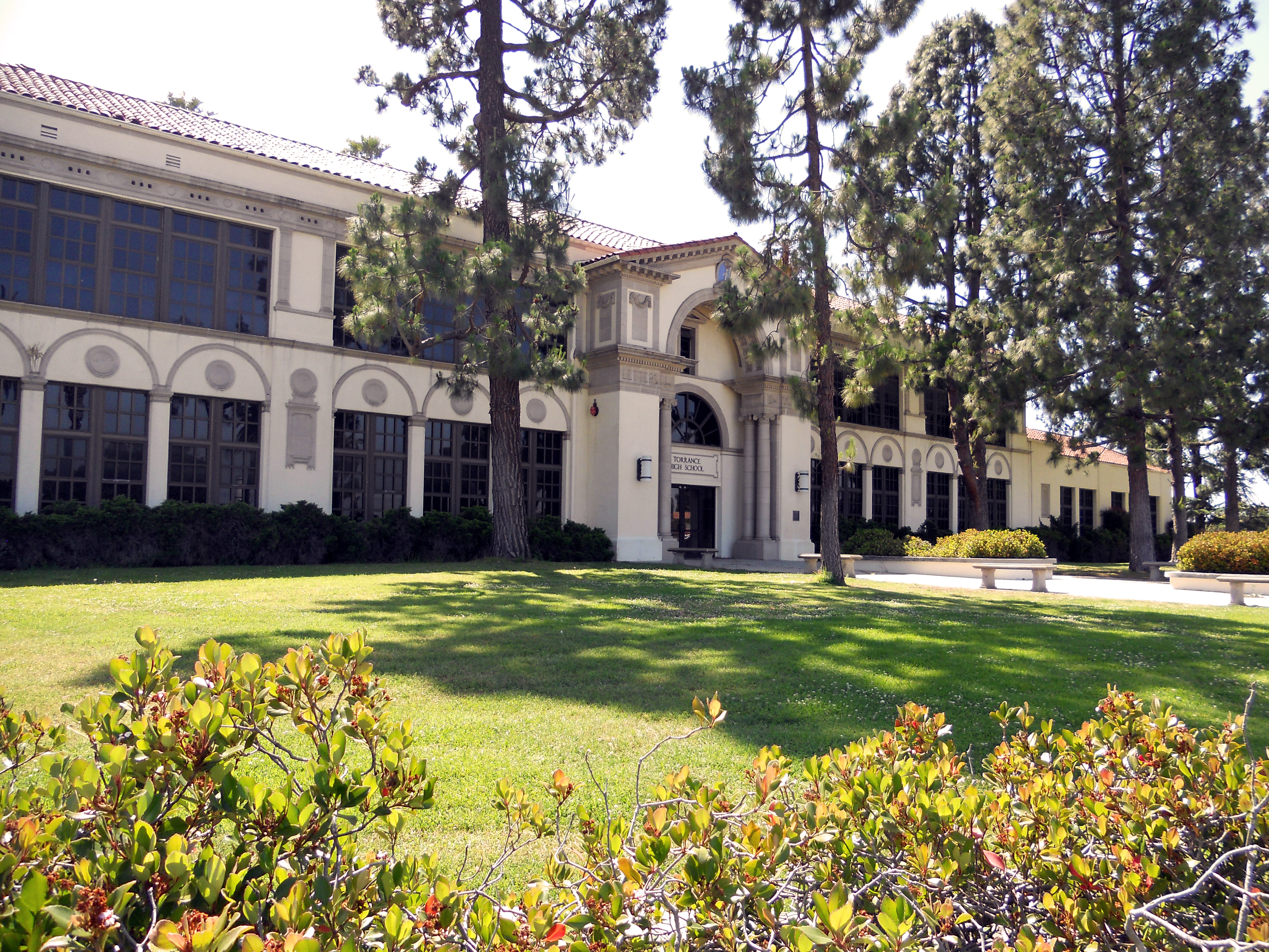 Entrance facade and garden of the Main Building at Torrance High School, located in Torrance, southwestern Los Angeles County, California. The 1917 Mediterranean Revival style building is on the National Register of Historic Places in Los Angeles County.